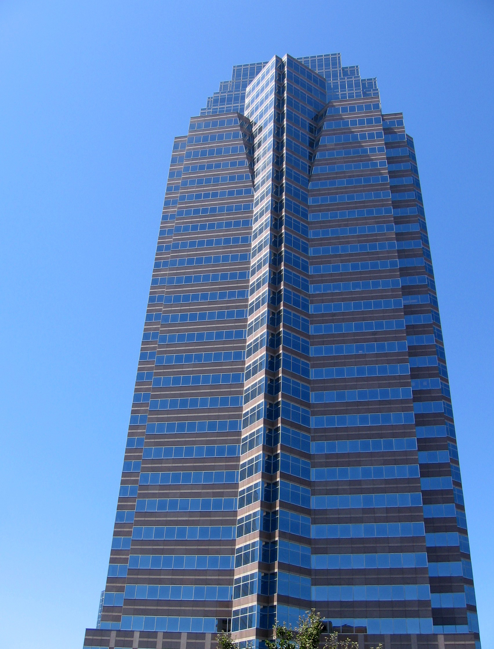 Fox Plaza